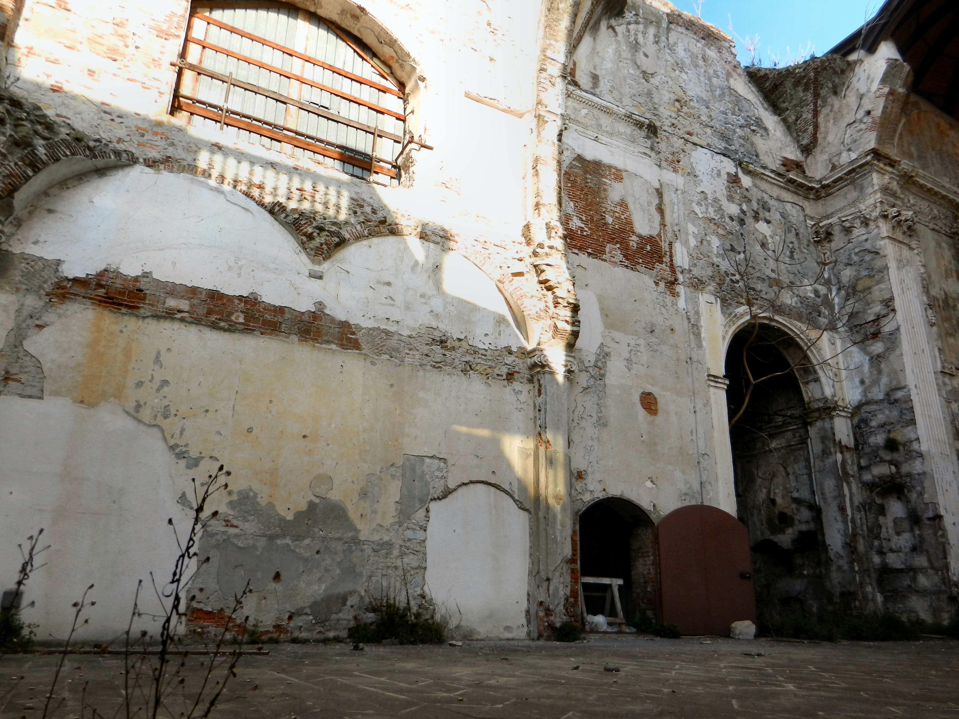 Genoa, Italy, quarter of Molo, ruins of the church of Santa Maria in Passione